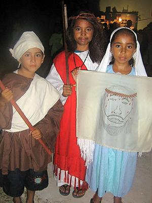 This photograph depicts three Belizean children from San Pedro Town dressed as Christian saints, martyrs and Biblical figures for the observance of Allhallowtide. It is common for Christian schools to host parties on the first two days of this triduum, All Hallows' Eve (Halloween) and All Hallows' Day (All Saints' Day), in which costumes of this kind are worn. In some Christian denominations, children also dress up as the Reformers for Reformation Day events, which are often celebrated alongside those of All Hallows' Eve.